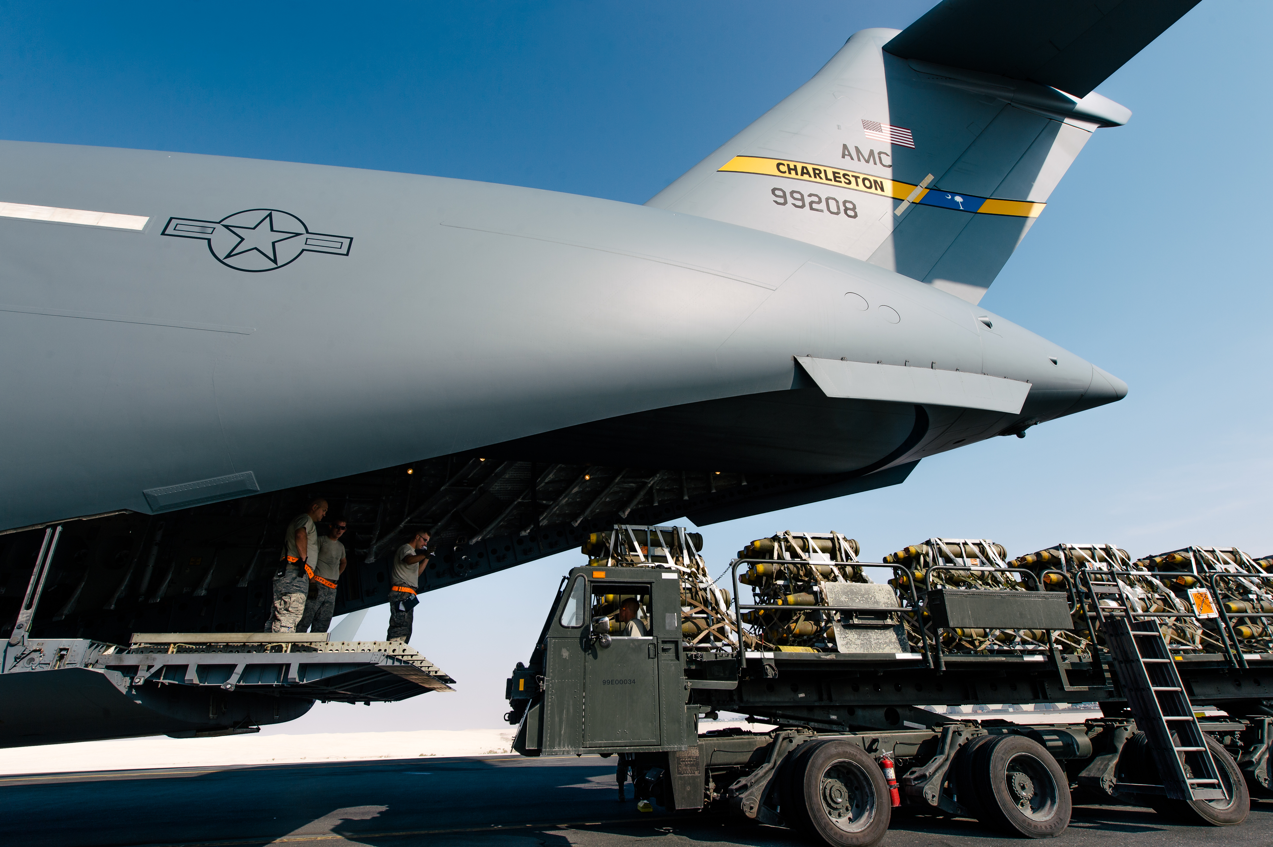 Airmen with the 8th Expeditionary Air Mobility Squadron load cargo onto an 816th Expeditionary Airlift Squadron C-17 Globemaster III in support of Combined Joint Task Force - Operation Inherent Resolve at Al Udeid Air Base, Qatar, Oct. 28, 2016. These squadrons are actively engaged in tactical airlift operations supporting the Mosul offensive. (U.S. Air Force photo by Senior Airman Jordan Castelan)